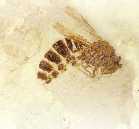 This fossil of Palaeovespa florissantia, a paper wasp, reveals a species that lived 34 million years ago. Its’ imprint is delicately preserved in paper-thin lake shale. This particular specimen serves as the logo for Florissant Fossil Beds National Monument. National Park Service photo.